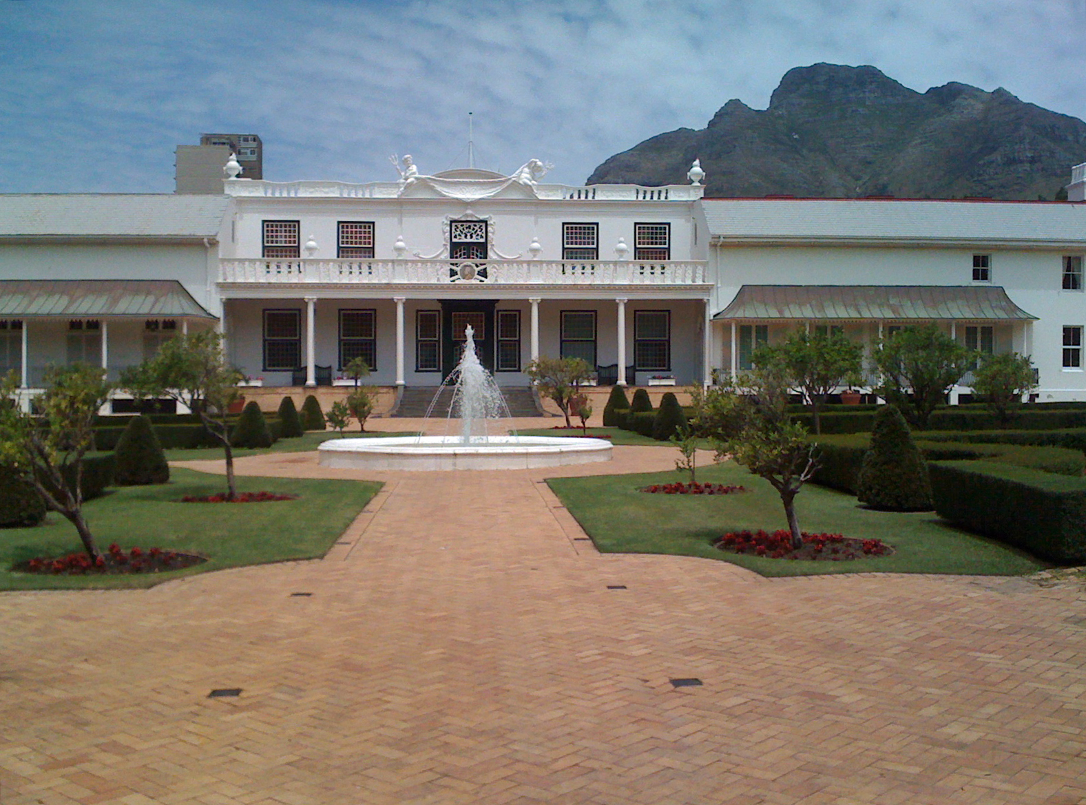 De Tuynhuys, Cape Town This media shows a South African Protected Site with SAHRA file reference 9/2/018/0235.